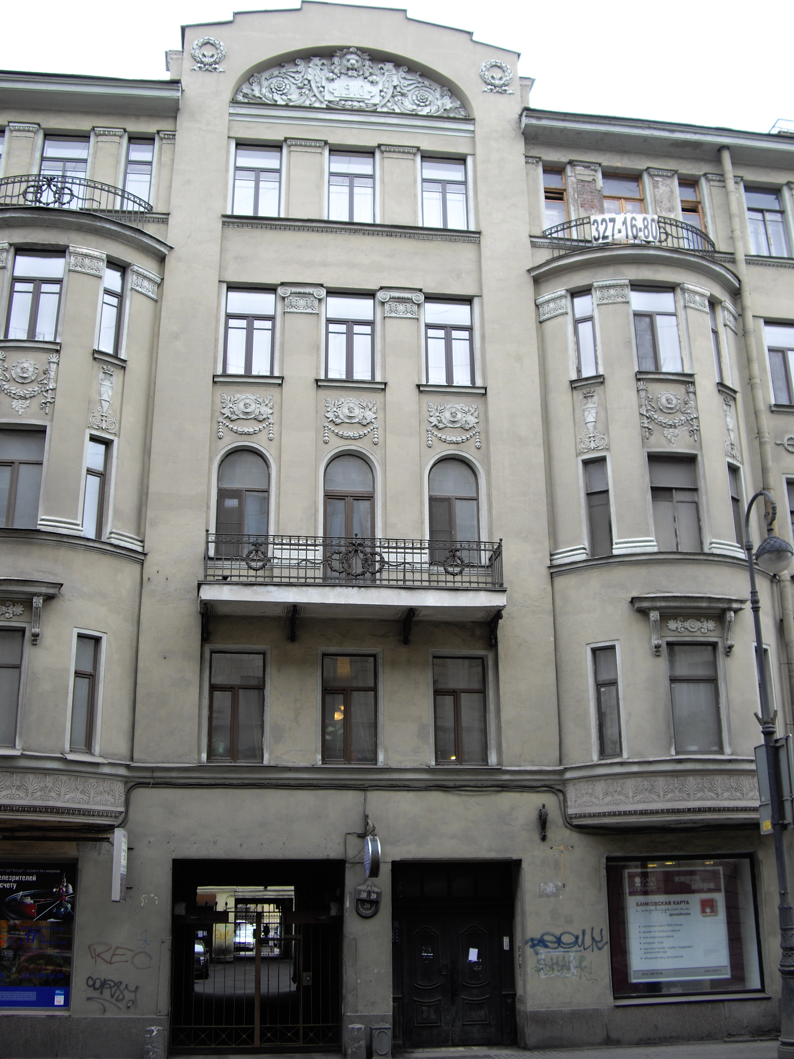 Right wing of building number 20, Kamennoostrovsky Prospect, Saint-Petersburg, Russia (project by N. Selikhov, 1909-1910).